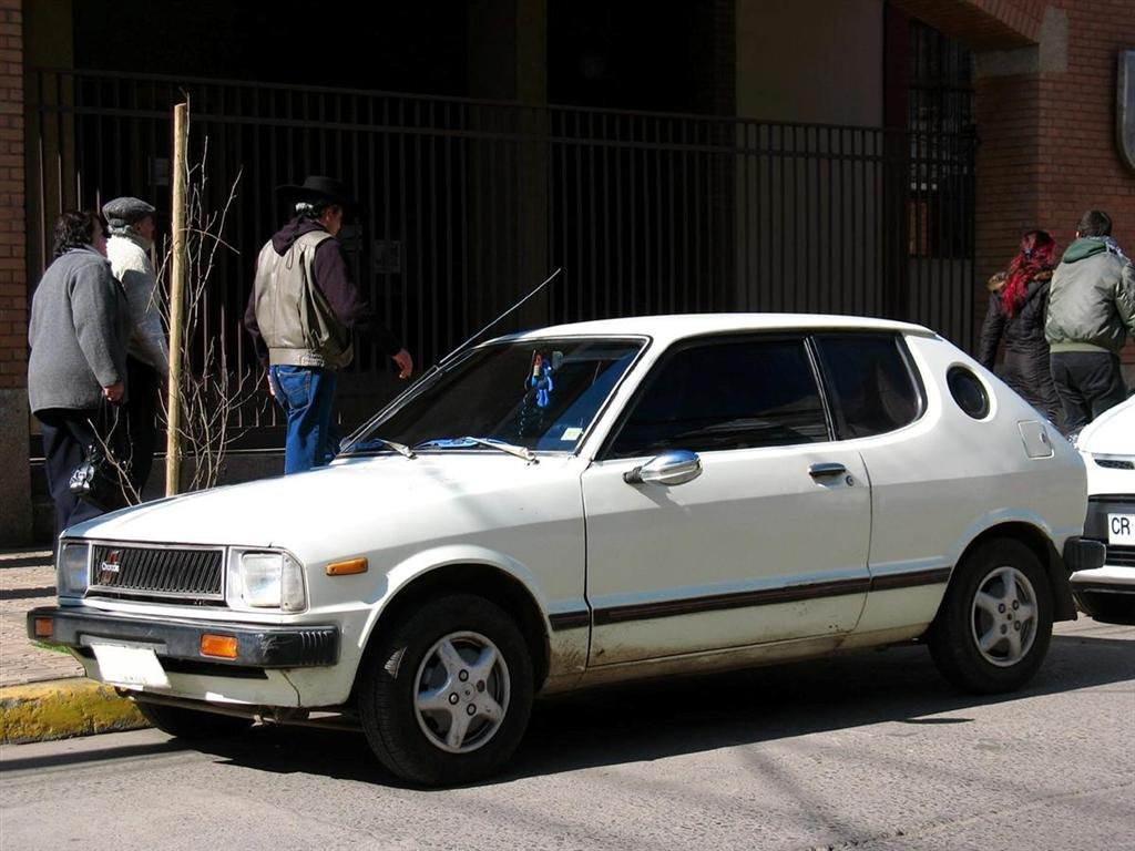 Daihatsu Charade G20 XG Runabout 850 1981